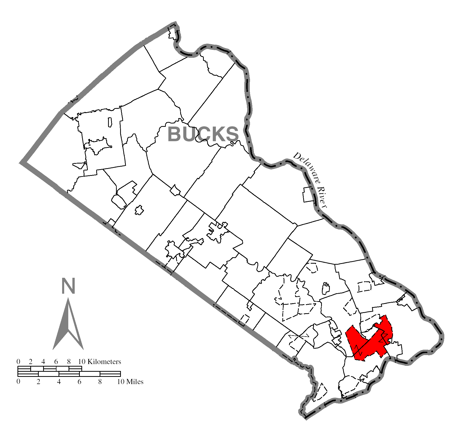 A map of Bucks County showing Levittown, Pennsylvania (alternate) highlighted on the map.